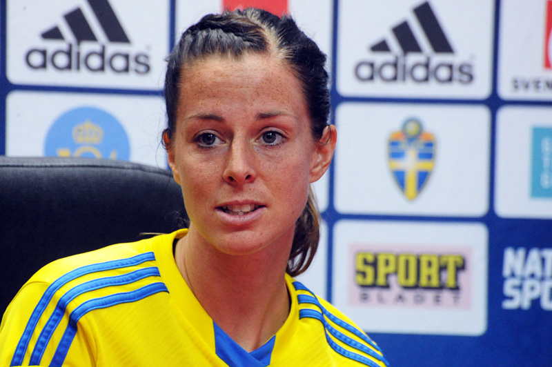 Swedish footballer Lotta Schelin